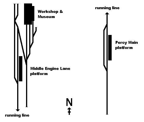 A diagram of the track layout of the North Tyneside Steam Railway & Stephenson Railway Museum. Although diagramatic, the length of the platforms, sidings and building is roughly to scale.